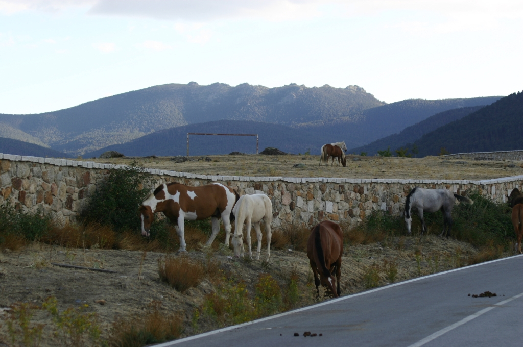 From Valsaín village (Castilla y León) view of Siete Picos with horses.